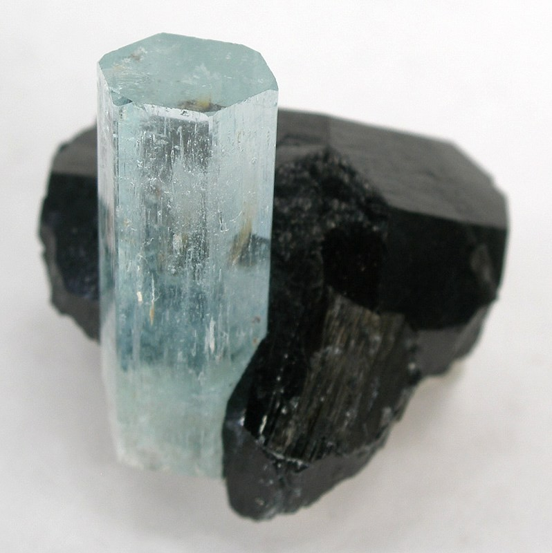 Beryl (Var.: Aquamarine), Schorl Locality: Erongo Mountain, Usakos and Omaruru Districts, Erongo Region, Namibia (Locality at ) A GEM aquamarine about 2.5 cm long, perched in the side of a very sharp and lustrous schrol crystal - great contrast and stark symmetry make this piece have a lot of impact. 3 x 2.8 x 2.5 cm